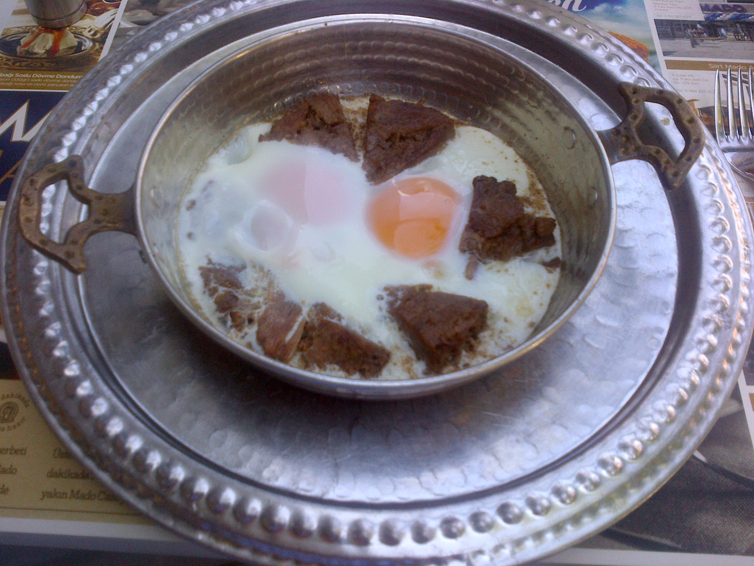 "Sahanda yumurtalı kavurma", from the Turkish cuisine. "Sahan" is a rather small container, or frying pan , with two handles, for cooking breakfast dishes like fried eggs ("sahanda yumurta") or kavurma ("sahanda kavurma") etc. The dish comes on a tray, because the sahan is hot.